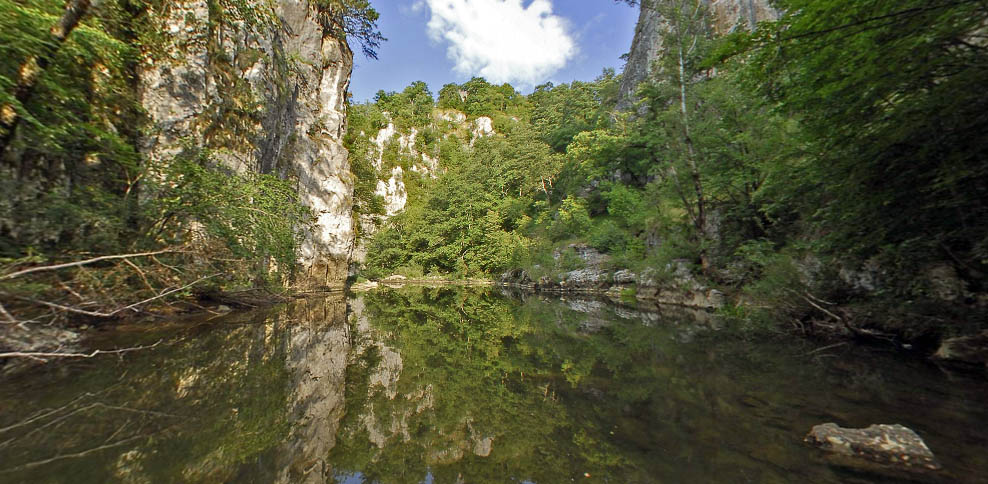 The narrowest part of Reka river canyon under the Školj castle, Slovenia